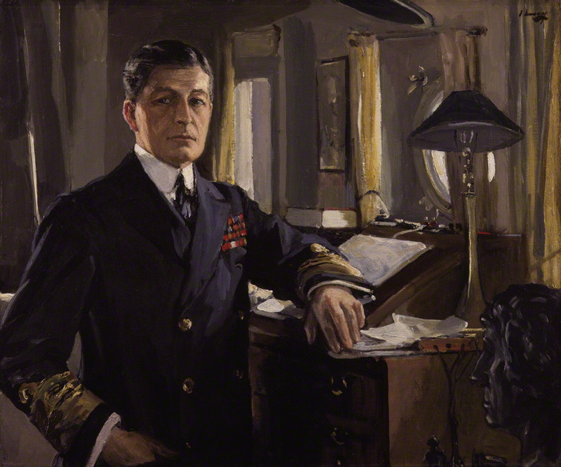 David Richard Beatty, 1st Earl Beatty oil on canvas, 24 7/8 in. x 29 7/8 in. (631 mm x 759 mm)